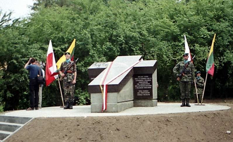 Open ceremony of monument of Paneriai battle 1831 in Vilnius, Lithuania